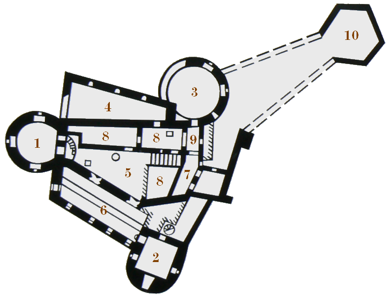 Map of the Šomoška Fortress, located on the border between Slovakia and Hungary 1. - Western cannon bastion 2. - Southern cannon bastion 3. - Barbican - an entrance gate 4. - Northern defensive corridor 5. - Courtyard of upper castle with water reservoirs 6. - Southern defensive corridor 7. - Gothic castle palace 8. - Buildings 9. - Entrance gate to upper castle 10. - Polygonal bastion